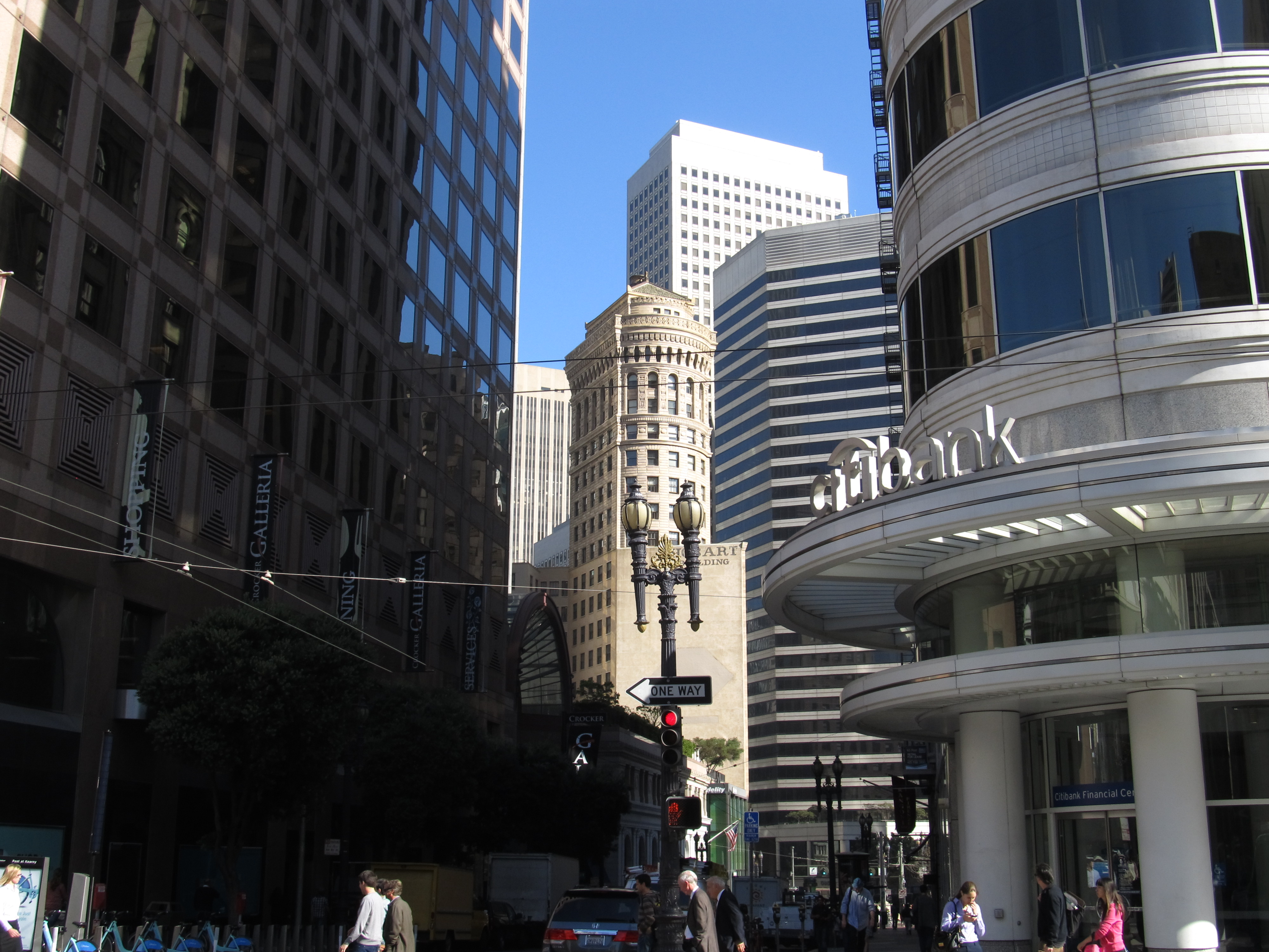 Montgomery Tower, part of the Post Montgomery Center complex and formerly Pacific Telesis Tower, is an office skyscraper located at the northeast corner of Post and Kearny Streets in the financial district of San Francisco, California. The 500-foot (150 m), 38-story tower was completed in 1982, and is connected by the Crocker Galleria mall to McKesson Plaza and has its main entrance on Kearny Street.